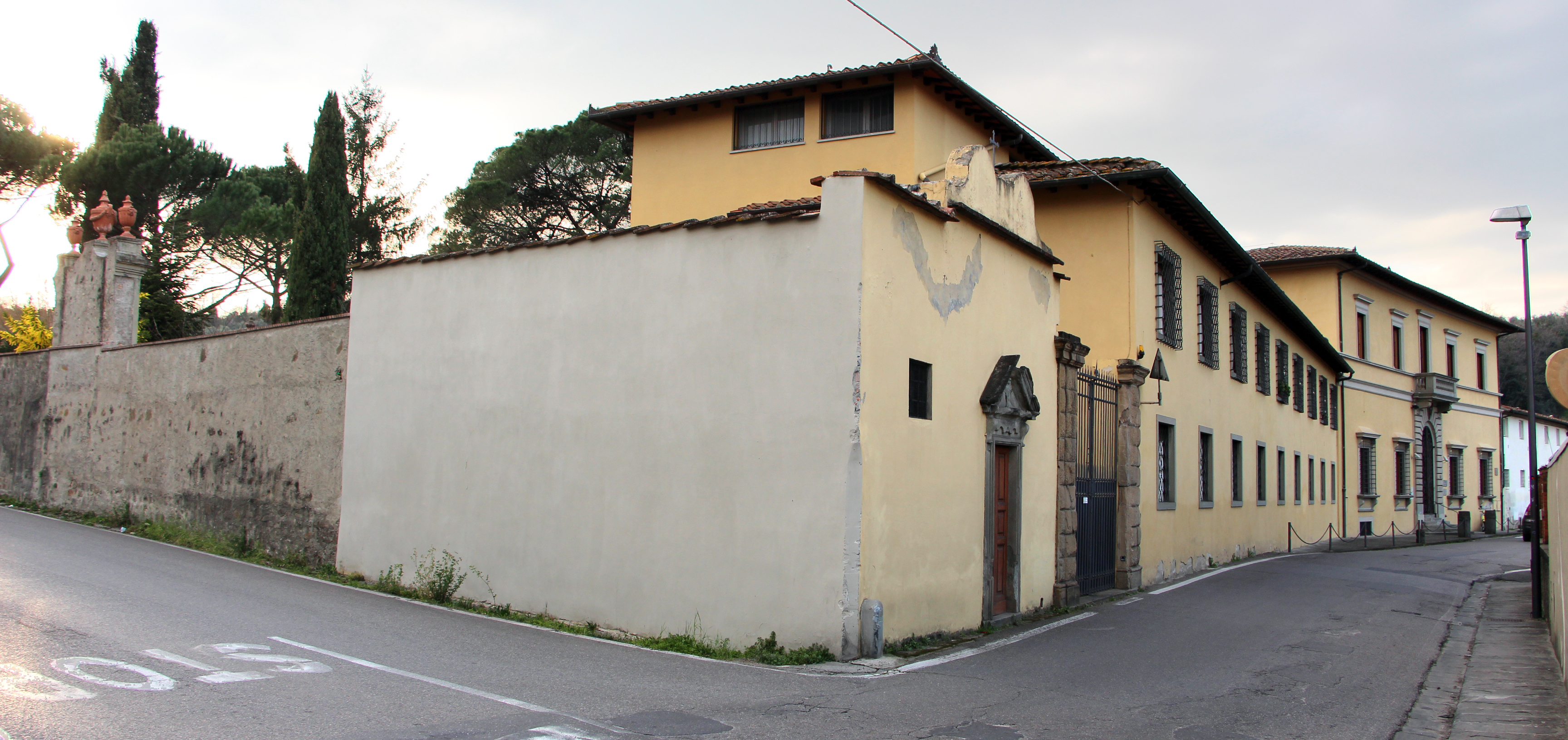 Villa Il Larione